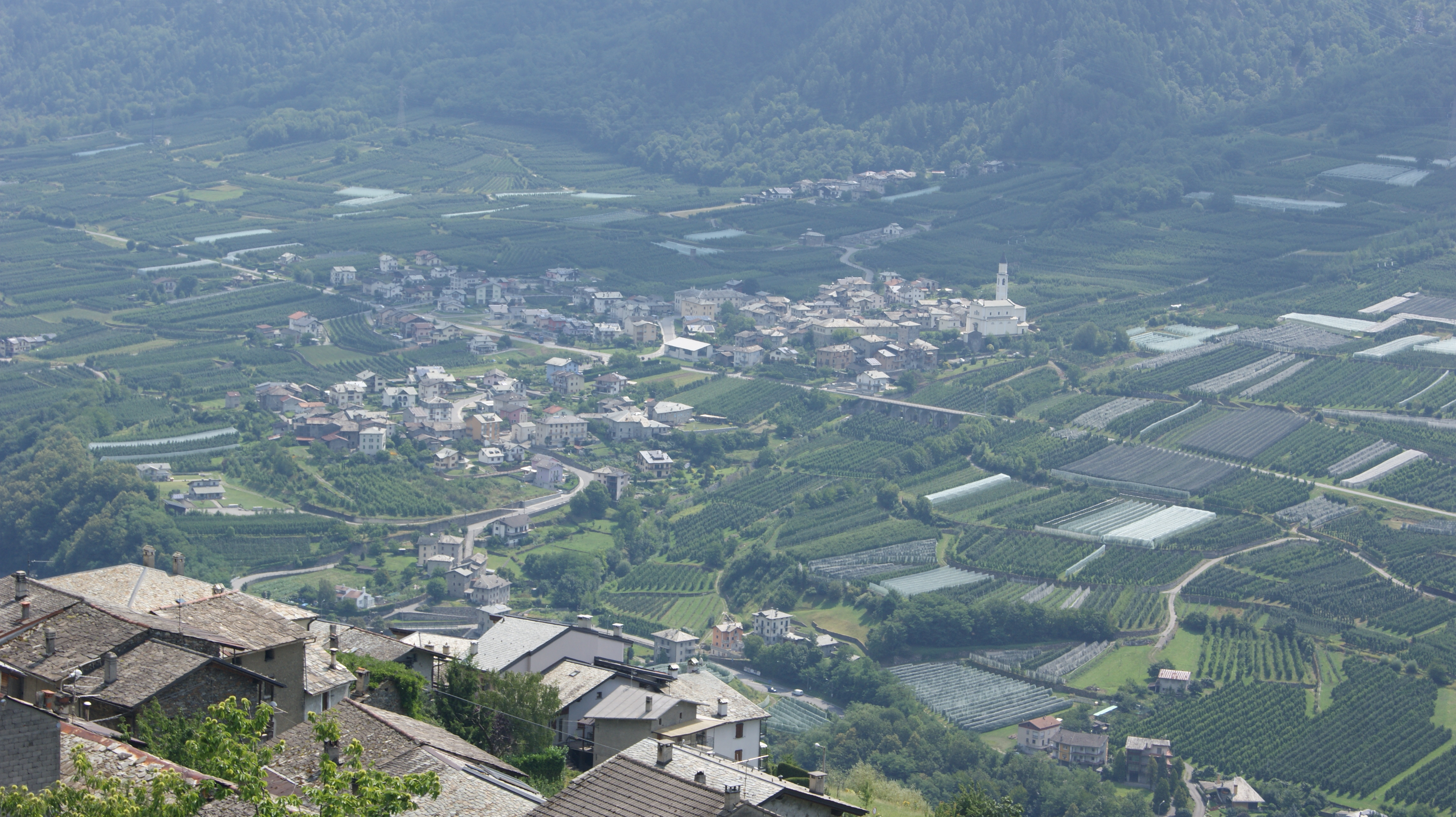 Tirano (Sondrio), Italy. View from Baruffini (Tirano) to Villa di Tirano.